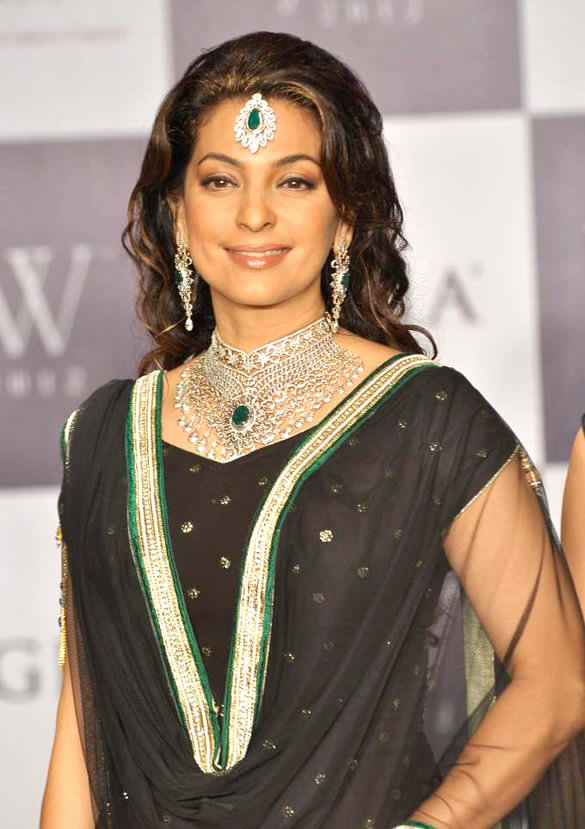 Juhi Chawla at the Indian International Jewellery Week 2012. Chawla presented creations by Kays Jewels on the third day of the event that took place at Hotel Grand Hyatt, Mumbai.